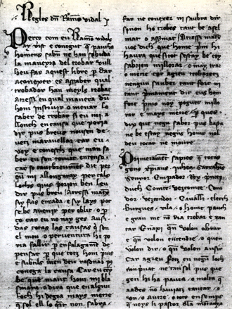 Razos de trobar of Raimon Vidal, folio 24 of MS 239 in the Biblioteca de Catalunya.